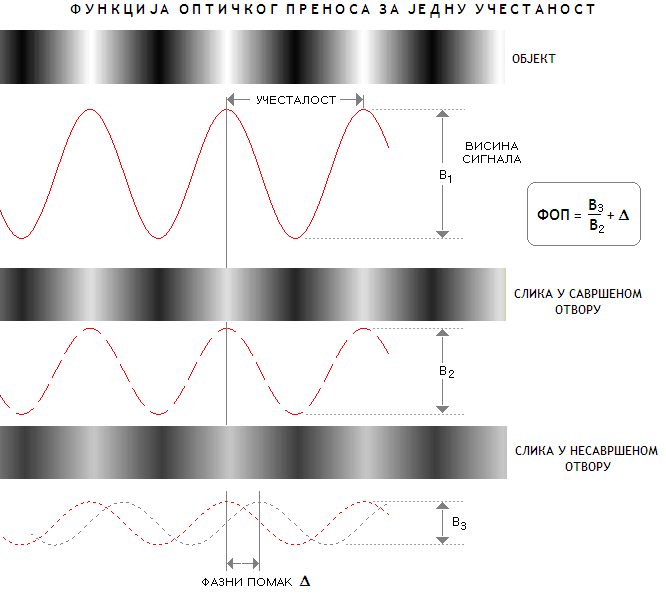 ФУНКЦИЈА ОПТИЧКОГ ПРЕНОСА ЗА ЈЕДНУ УЧЕСТАНОСТ